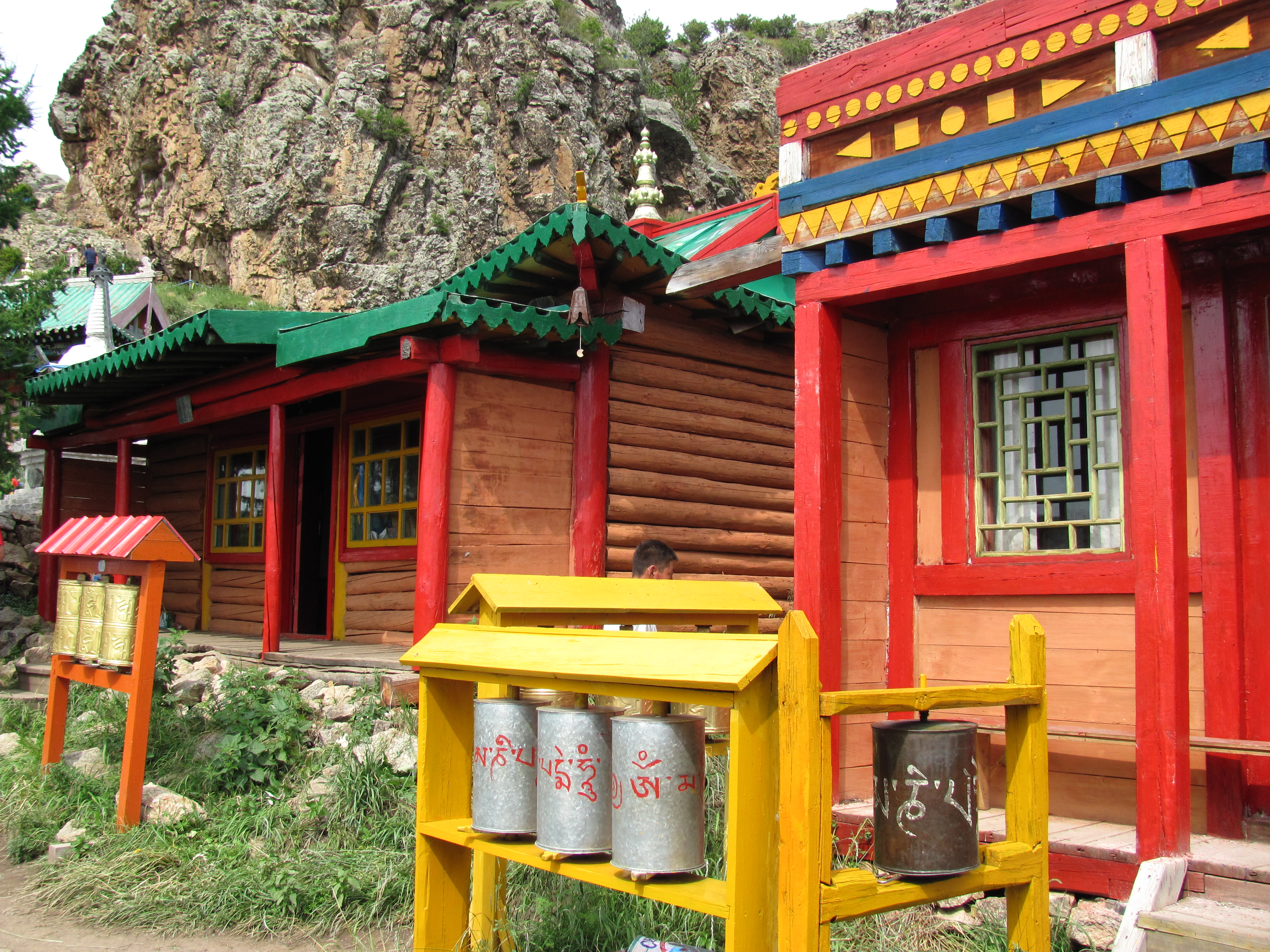 Monastery Tövkhön Khiid, Orkhon Valley, Mongolia.